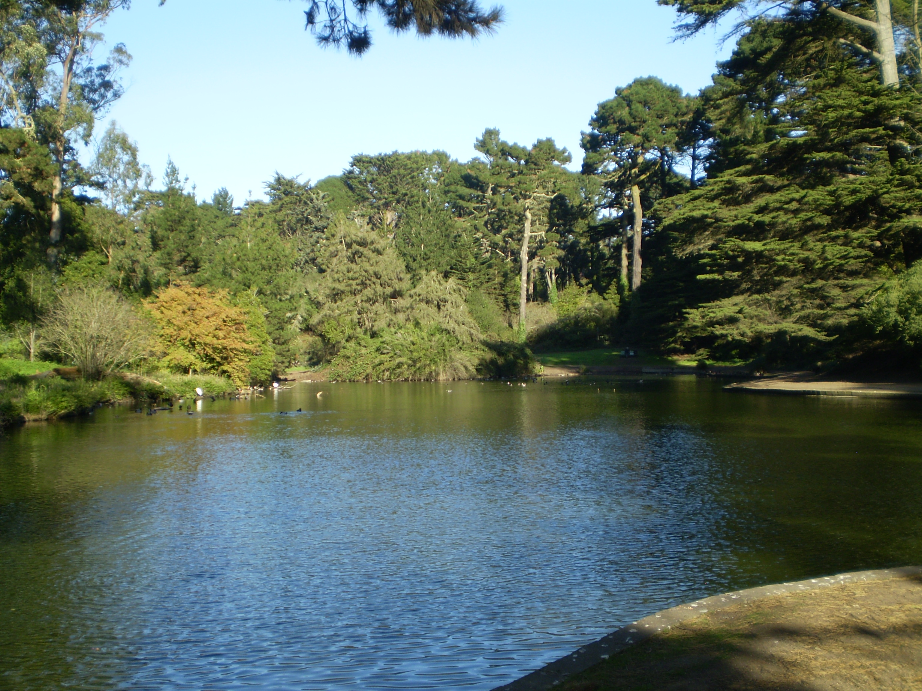 Golden Gate Park